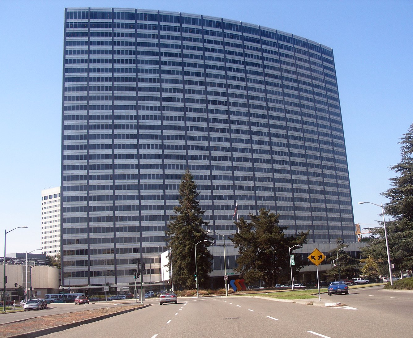 Kaiser Center in downtown Oakland. It is the former home of Kaiser Industries. Photographed on September 12, 2006 by user Coolcaesar.